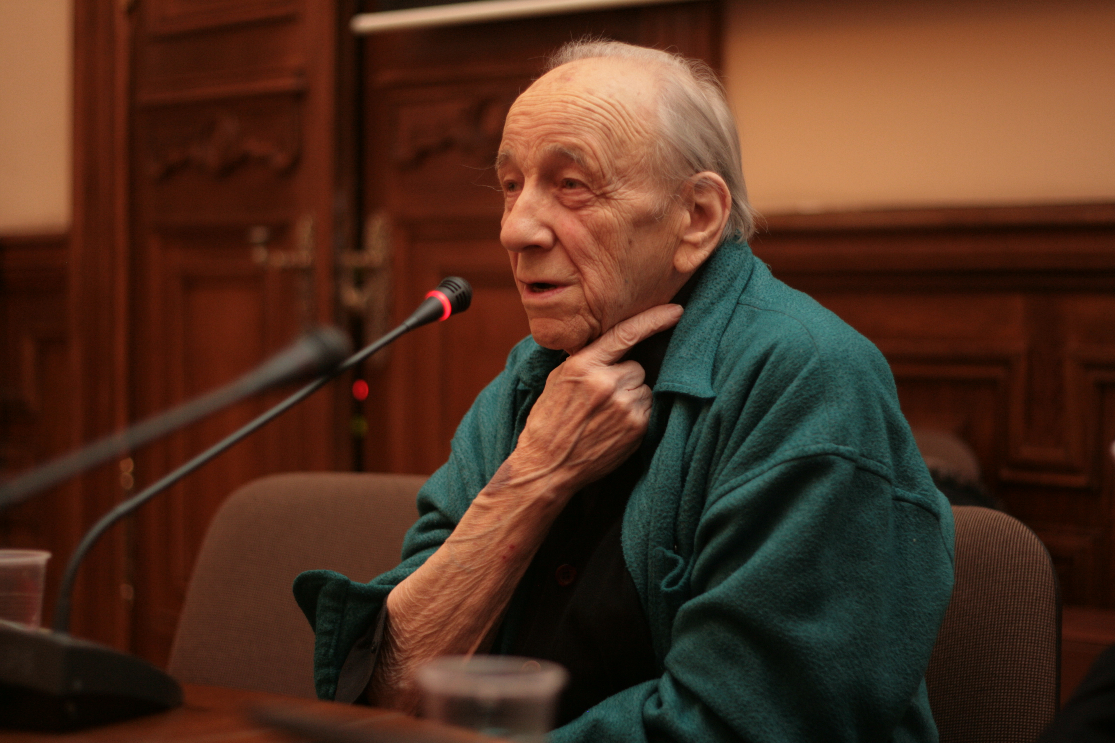 Кирилл Арнштам на встрече со студентами Молодежного центра